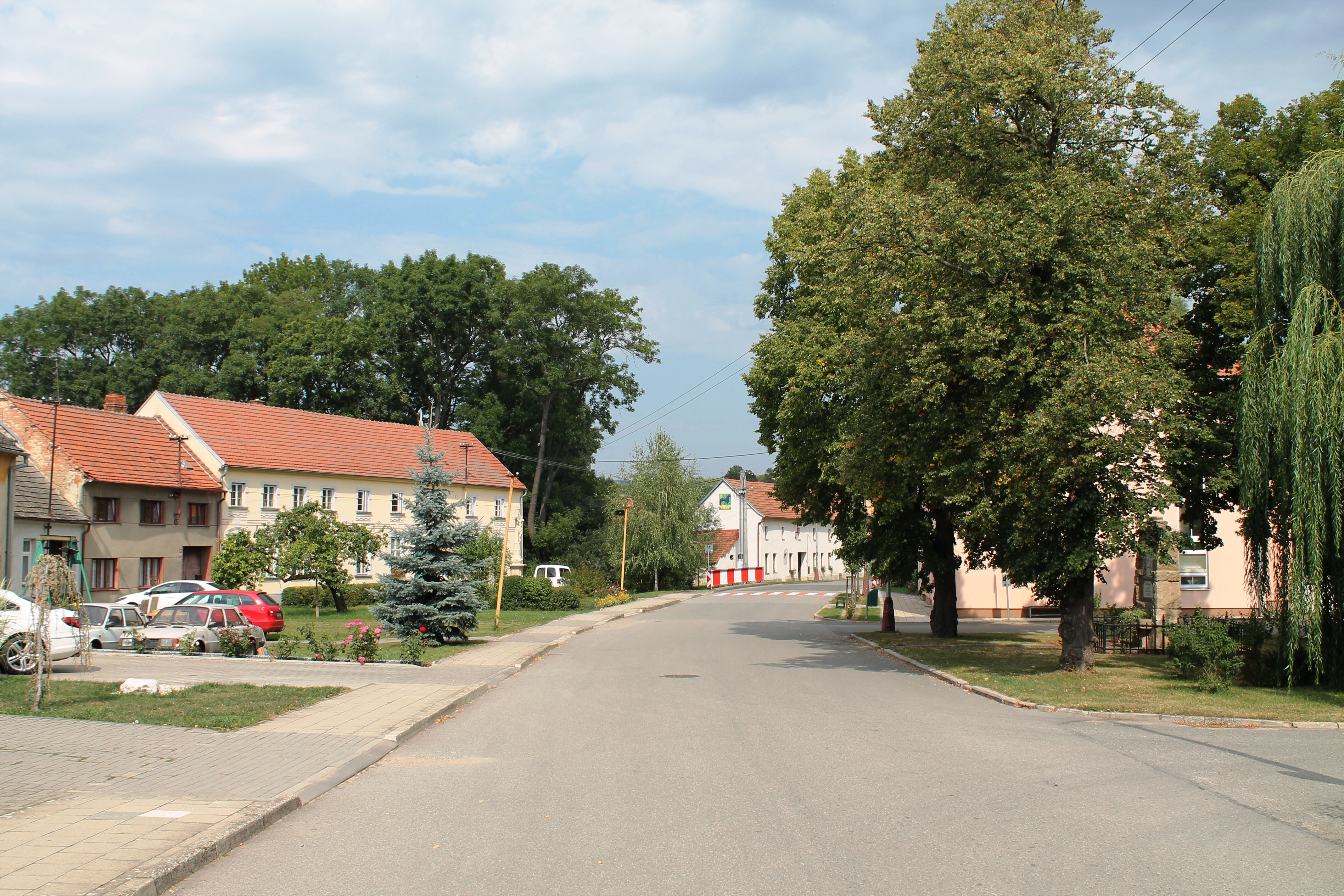 Slavíkovice, Rousínov, Vyškov District, Czech Republic